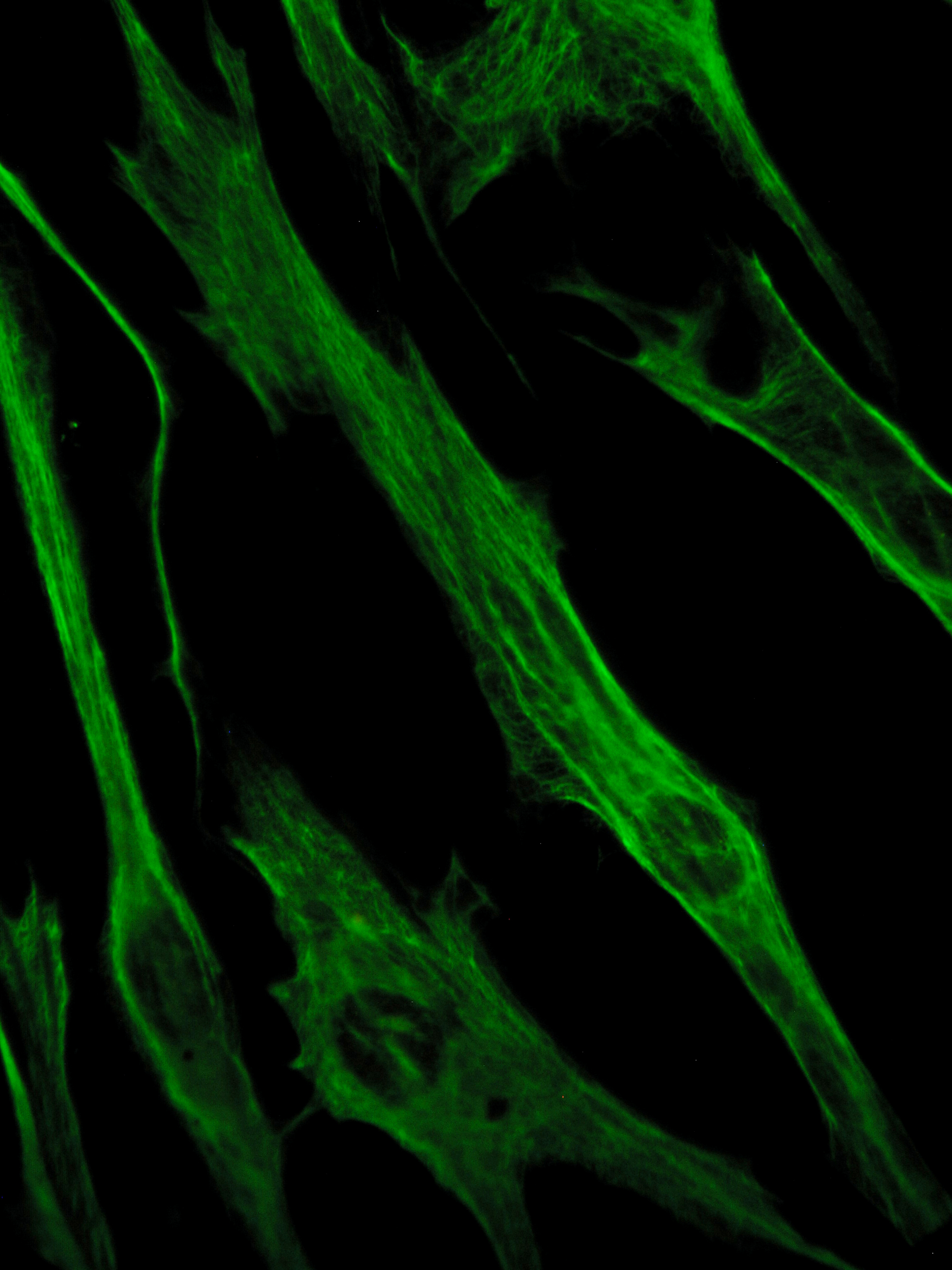 Vimentin fibers in the human fibroblasts. Vimentin is a protein that forms intermediate filaments in mesenchymal cells.